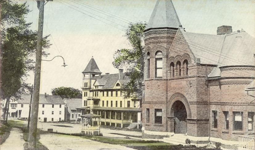 Woods Library and Hotel Low, Bradford, Vermont; from a c. 1915 postcard published by Hunt & Jenkins. Designed by Lambert Packard of St. Johnsbury, Vermont, the library was built in 1894-1895 with a donation from John L. Woods.